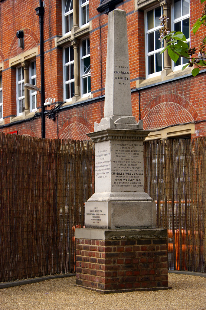 Monument erected in St Mary le Bone Old Churchyard to mark the position of the original grave of Charles Wesley.